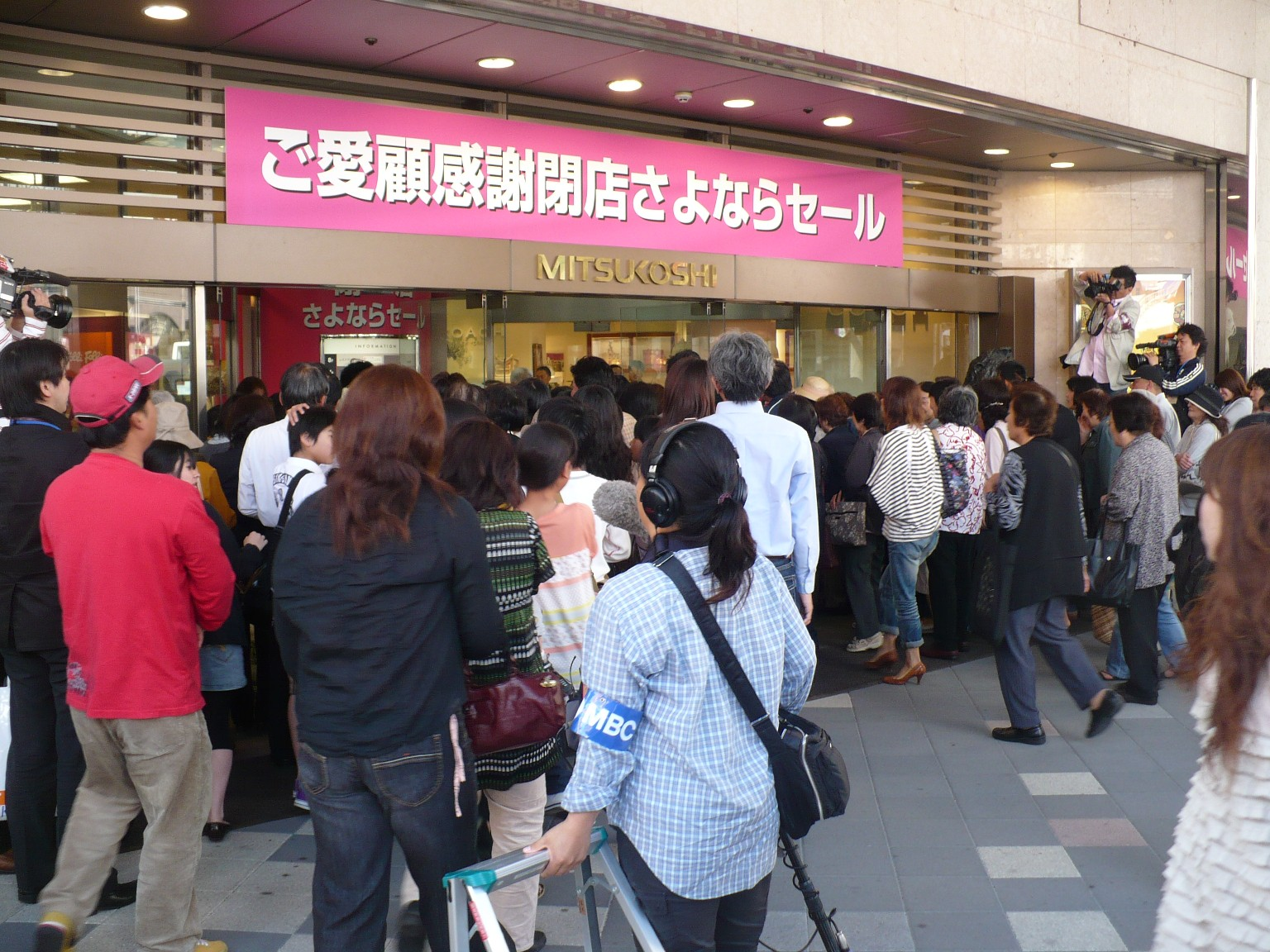 The last day of Mitsukoshi department store Kagoshima branch. Just before the opening of the last day.